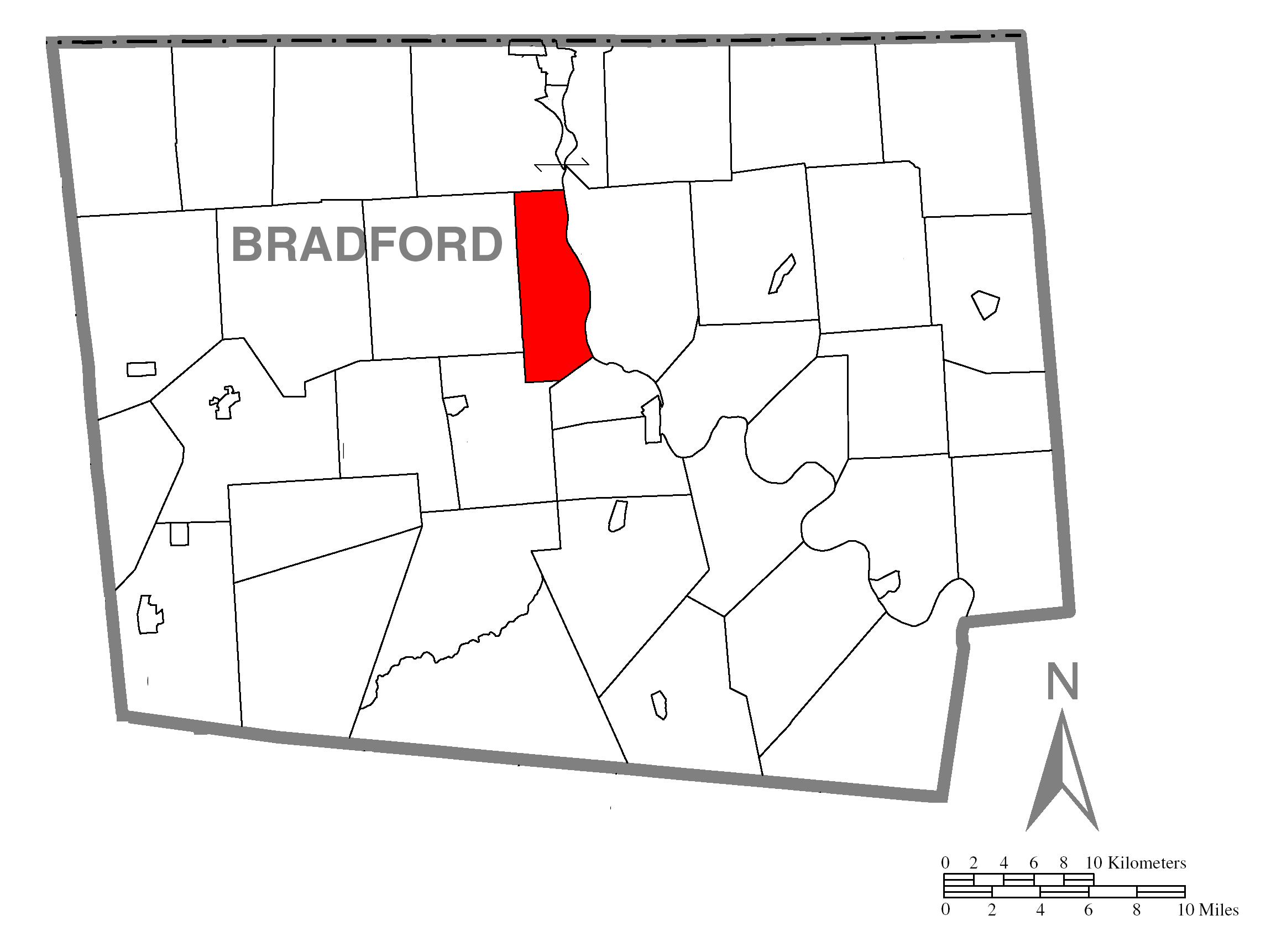 A map of Bradford County showing Ulster Township, Pennsylvania (alternate) highlighted on the map.